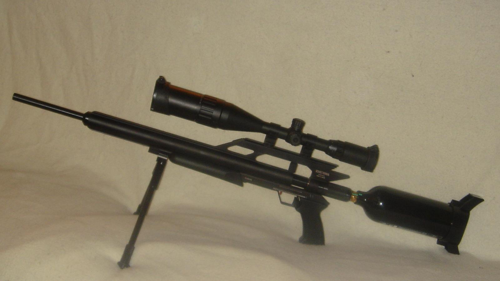 Condor Airgun